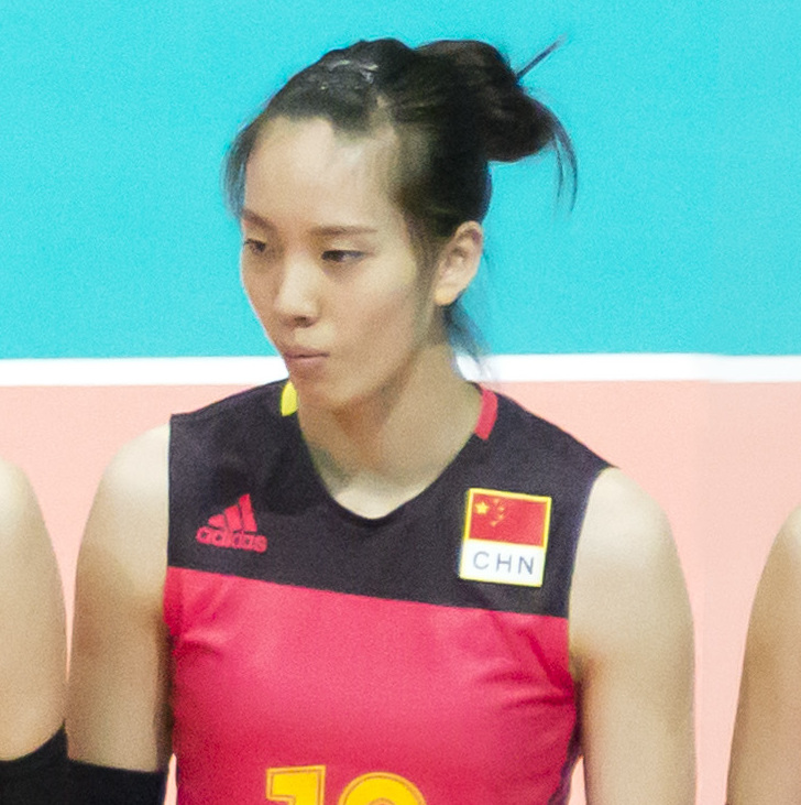 China team 1. XINYUE YUAN袁心玥 2. TING ZHU朱婷 3. JING LI 4. JINGWEN QIAN 5. YI GAO高意 6. XIANGYU GONG龚翔宇 8. DI YAO 姚廸 10. XIAOTONG LIU刘晓彤 12. YIXIN ZHENG 15. LI LIN林莉 16. XIA DING丁霞 17. YUANYUAN WANG 18. MENGJIE WANG 21. YUNLU WANG